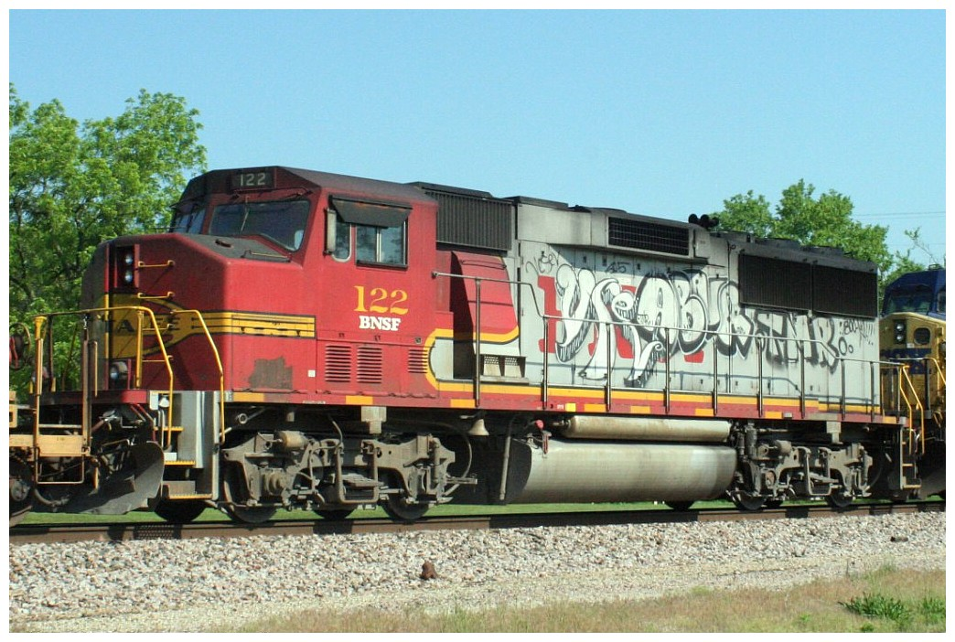 Burlington Northern Santa Fe 122, EMD GP60M